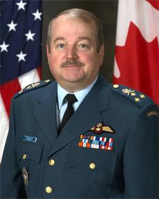 Official portrait of Lieutenant-General Eric A. "Rick" Findley of the Canadian Forces Air Command and Deputy Commander of the North American Aerospace Defence Command